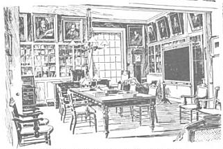 Interior, AmericanPhilosophicalSociety, Philadelphia